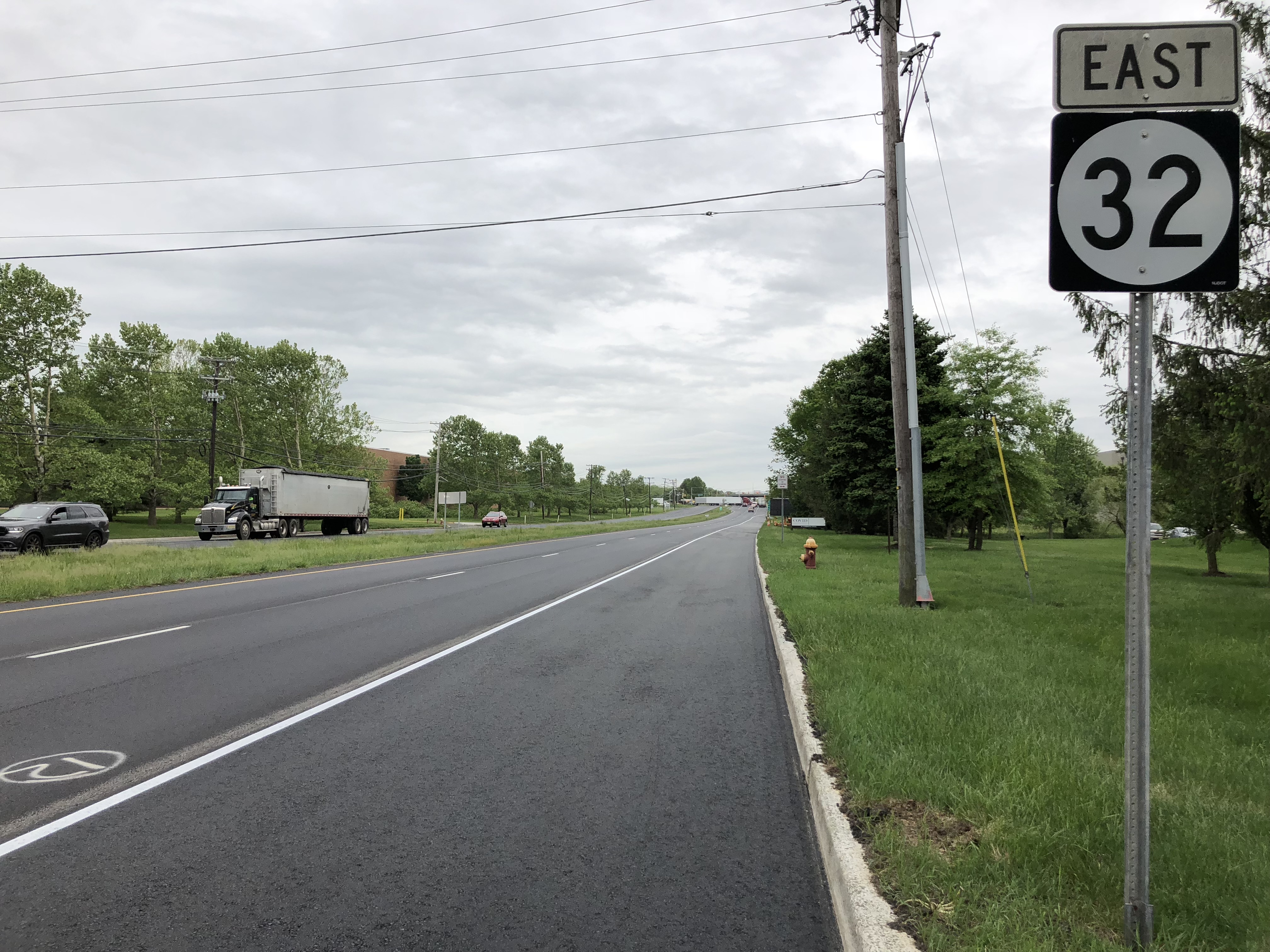 View east along New Jersey State Route 32 (Forsgate Drive) just east of Commerce Drive and Herrod Boulevard in South Brunswick Township, Middlesex County, New Jersey